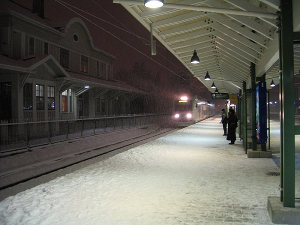 Winter view of Huopalahti railway station, situated in the Etelä-Haaga district of Helsinki, Finland